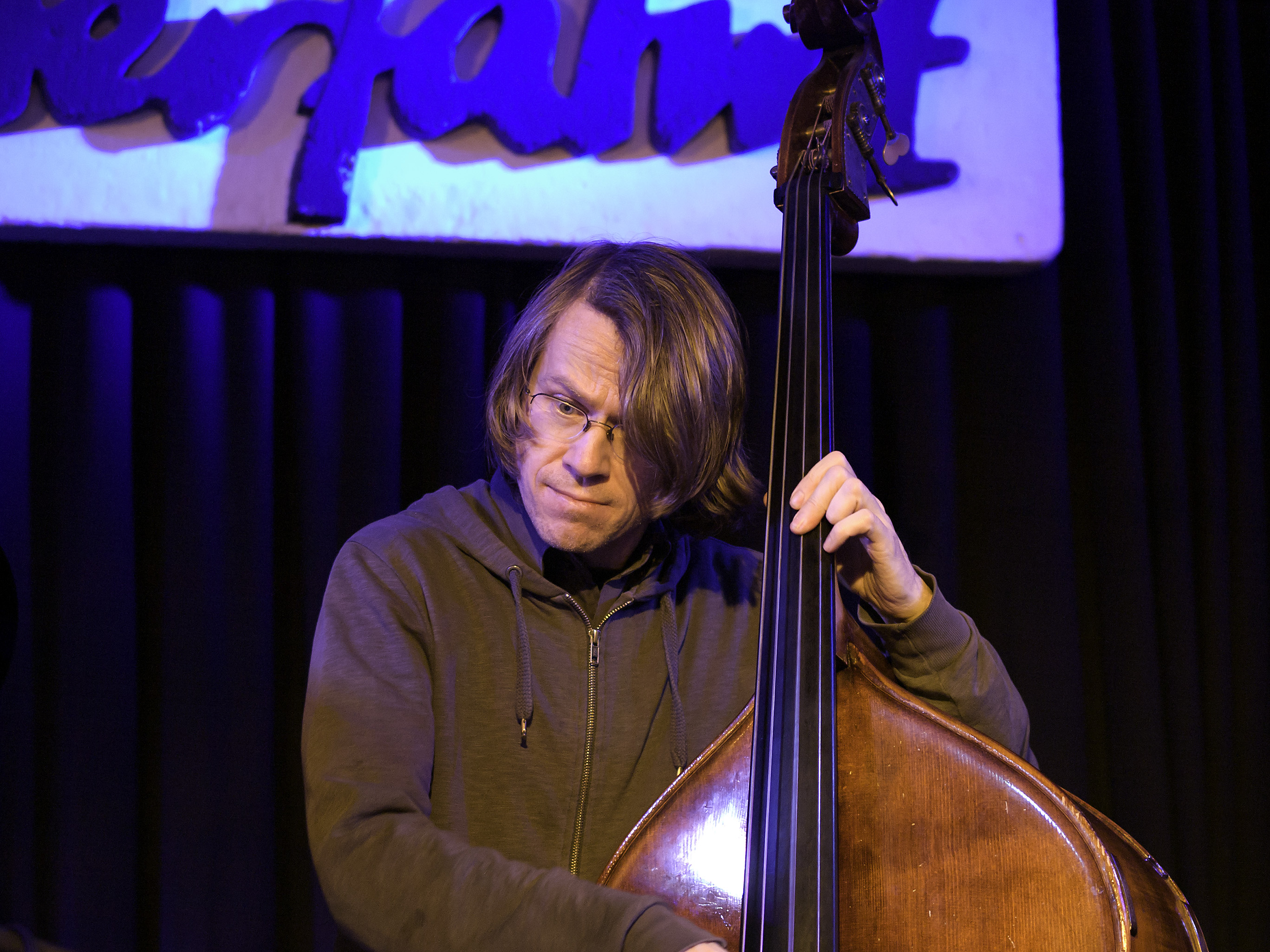 Henning Sieverts, Jazz bassist; Picture taken in Jazz Club Unterfahrt, Munich/Bavaria